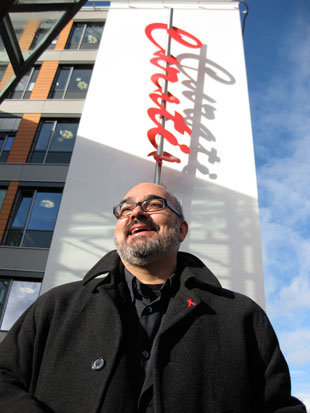 Mario Hergueta and his Artwork "Curatio" in Mainz, Germany. 12/2008